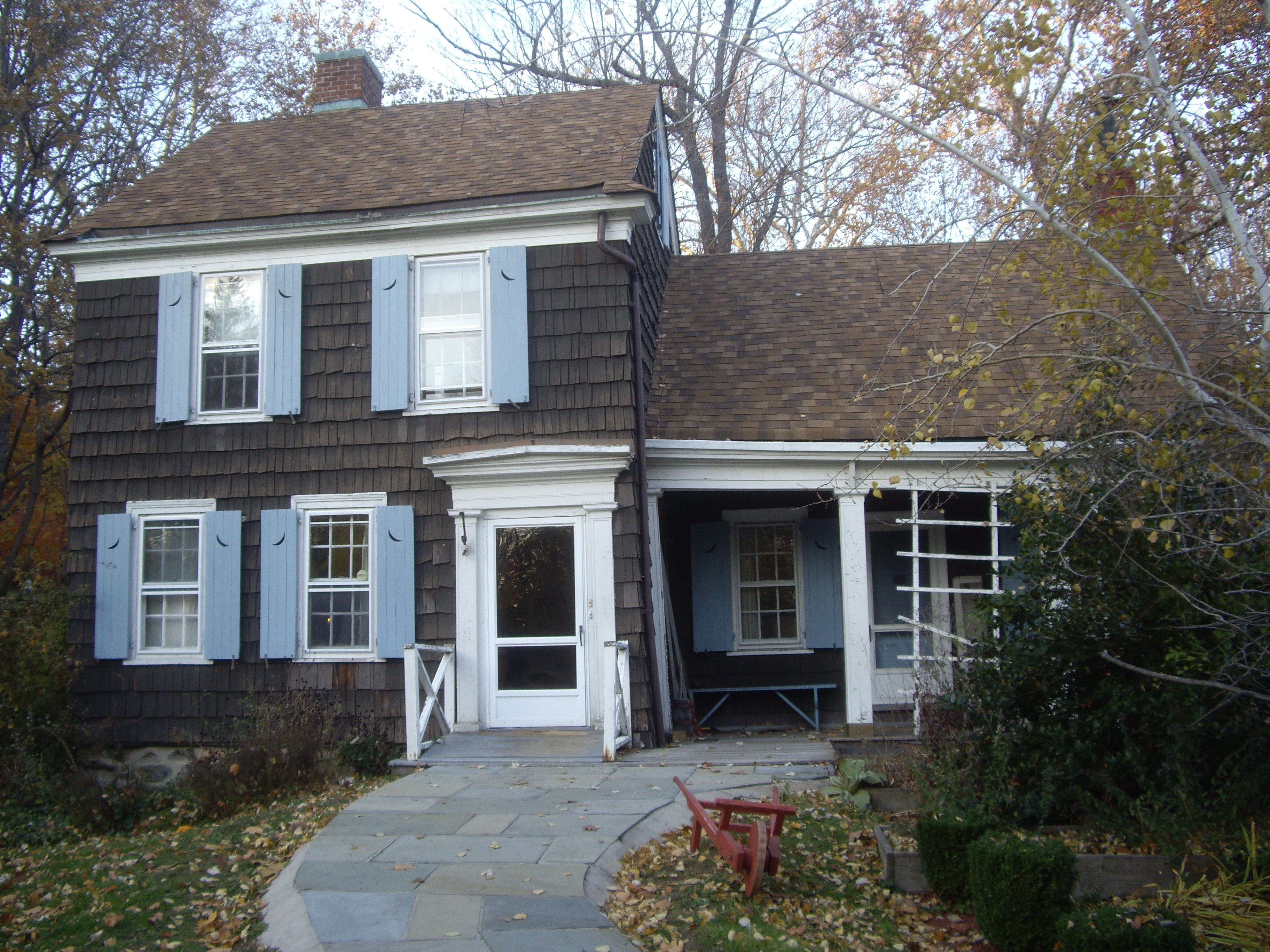 Thomas Paine cottage, New Rochelle, New York.